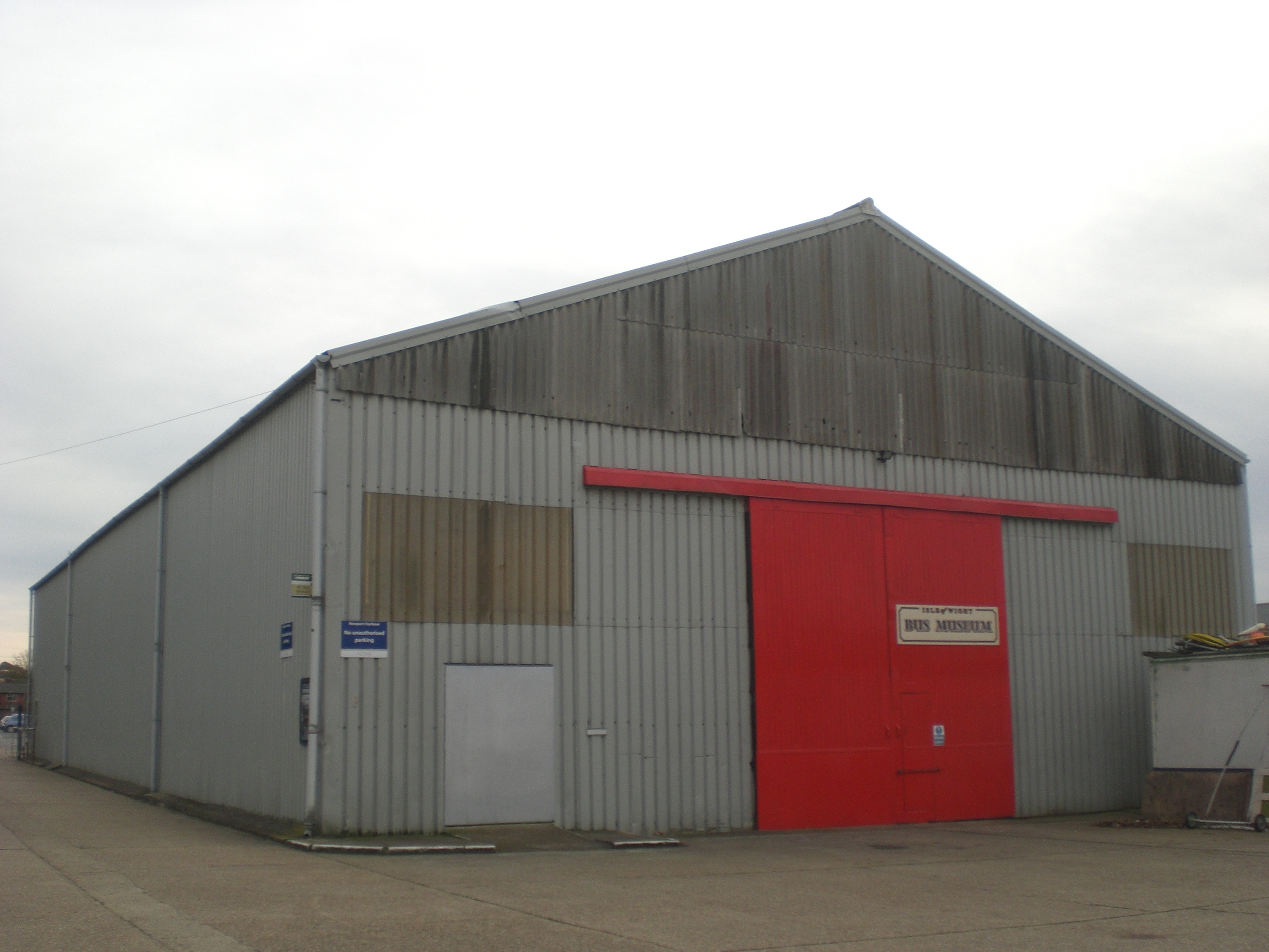 The outside of the Isle of Wight Bus and Coach Museum.